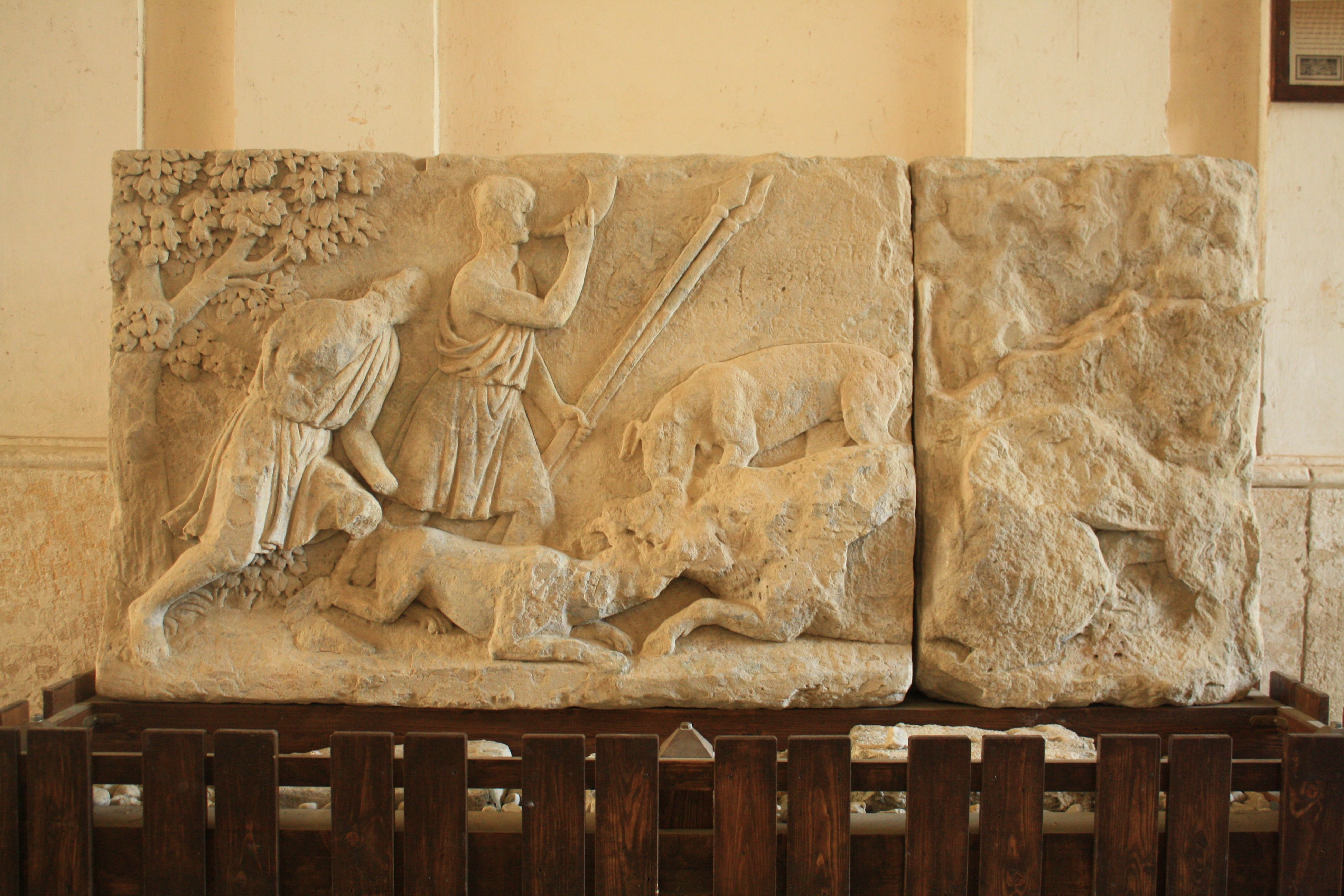 Castle of Valtice in Czechia